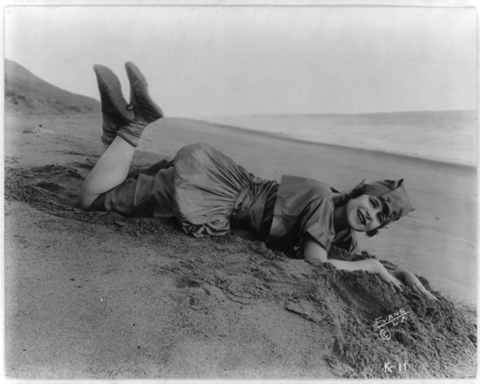 Edith Roberts lying on beach, facing right; publicity shot for a Mack Sennett Production. Library of Congress Reproduction Number LC-USZ62-82755; no known restrictions on publication.